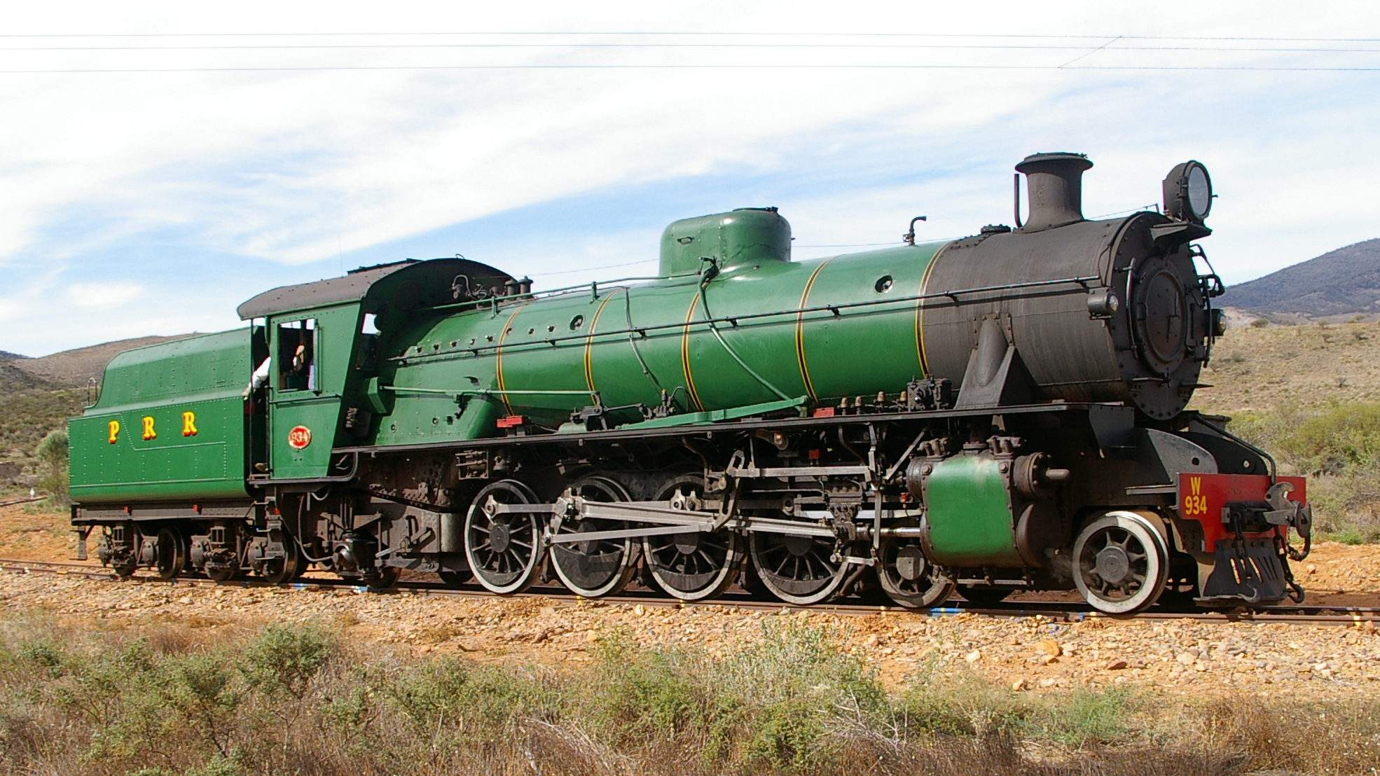 WAGR W class locomotive W934 at Woolshed Flat.jpg, Pichi Richi Railway, South Australia